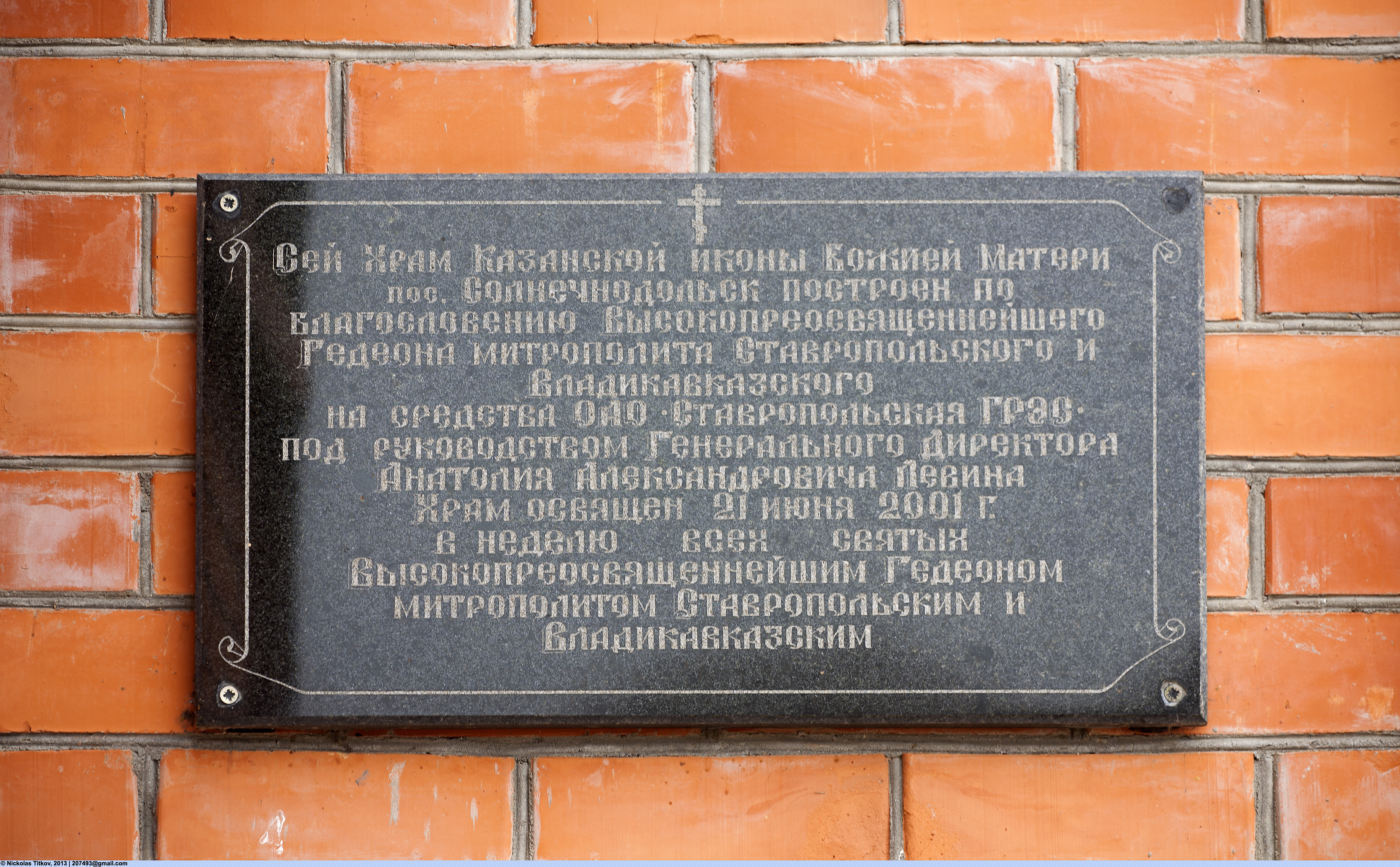 Церковь Казанской иконы Божией Матери поселка Солнечнодольск (табличка)